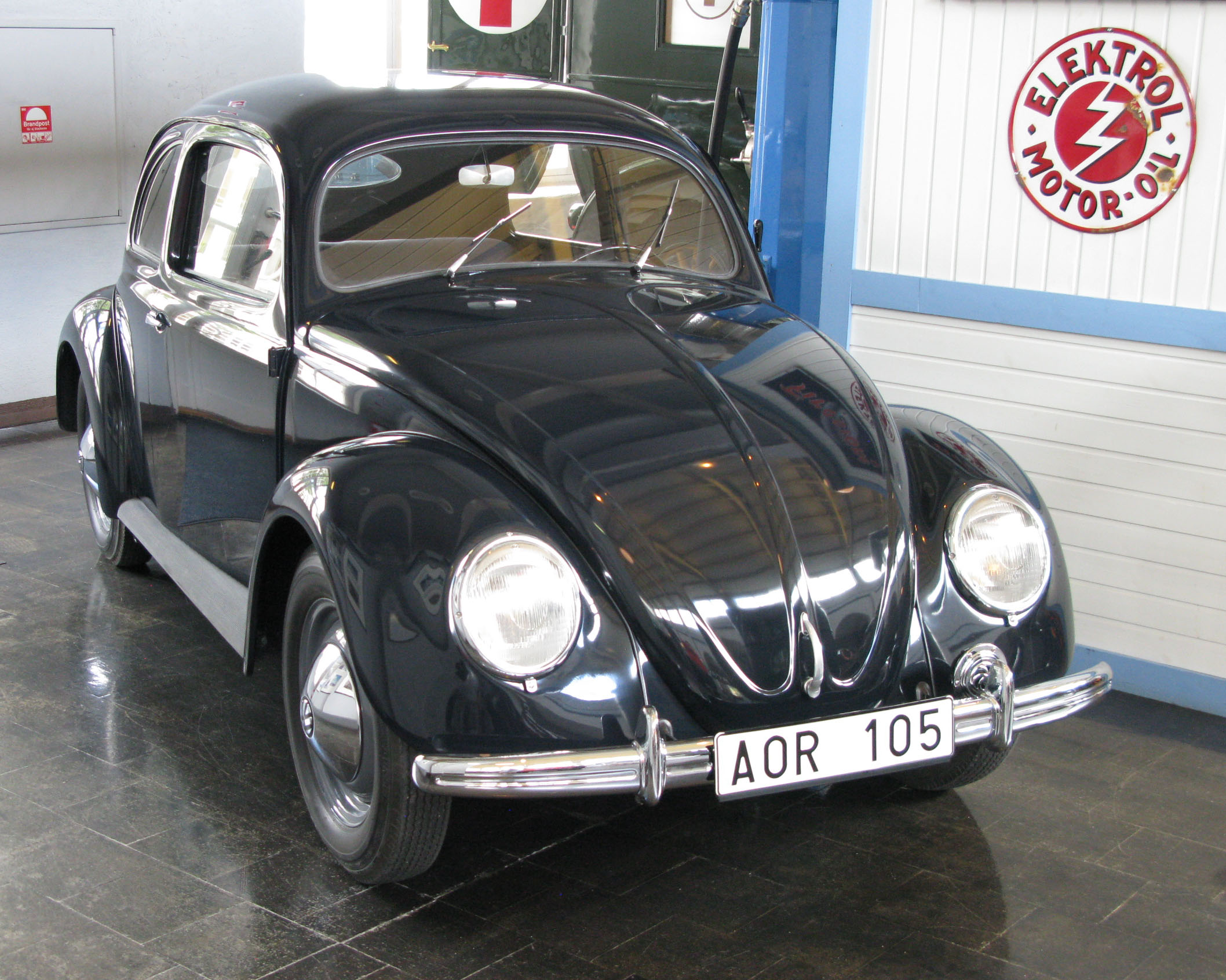 1949 VW Typ 11 Exportmodell. Location: Scania Museum in Södertälje, Sweden.